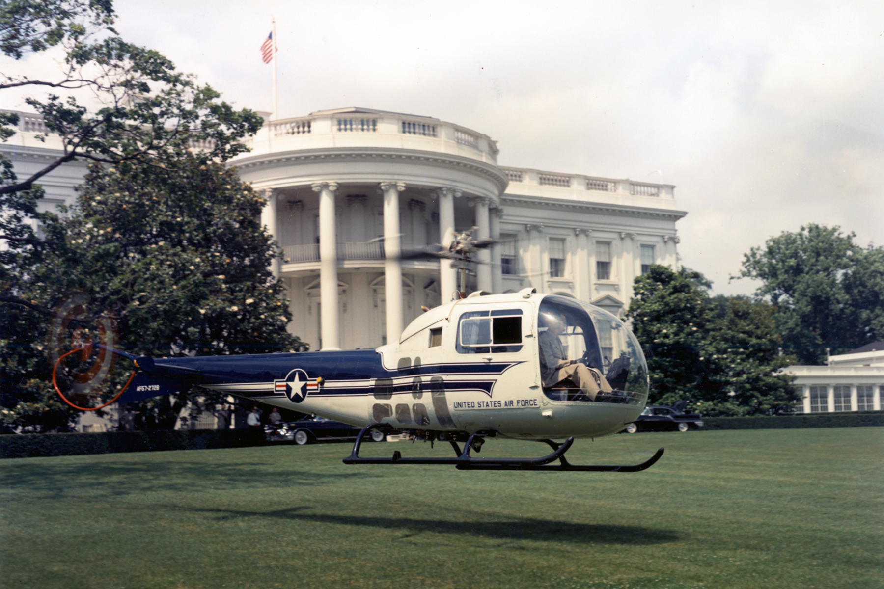 A Bell H-13J helicopter of the U.S. Air Force, one of the first helicopters to transport the President of the United States, performs a practice landing on the West Lawn of the White House in June 1957.